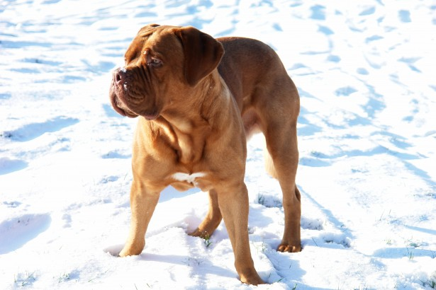 Bordeaux plays in the snow